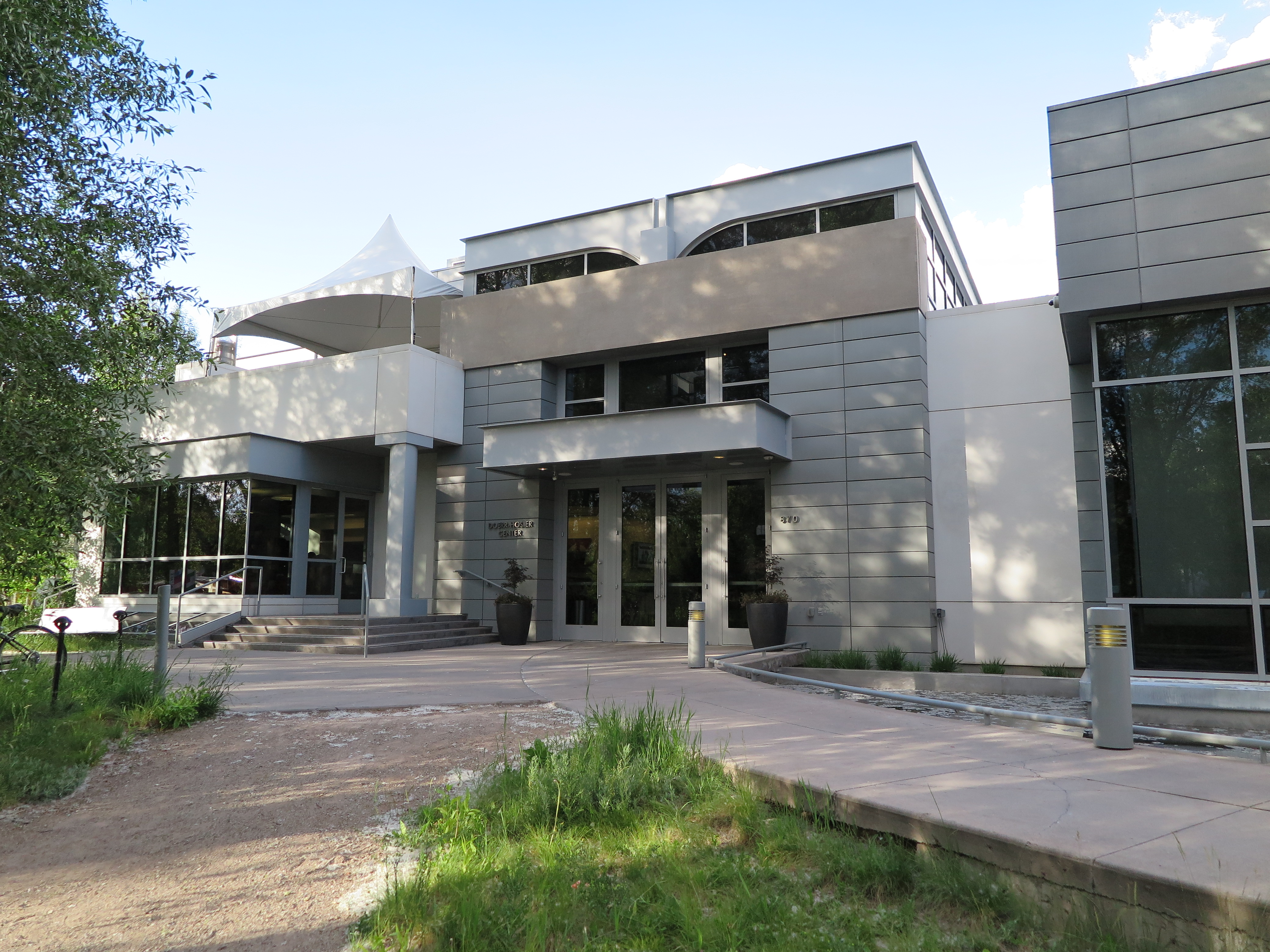 Picture from the Aspen Institute campus in Aspen, Colorado. Front of the Doerr-Hosier Center at the Aspen Institute.